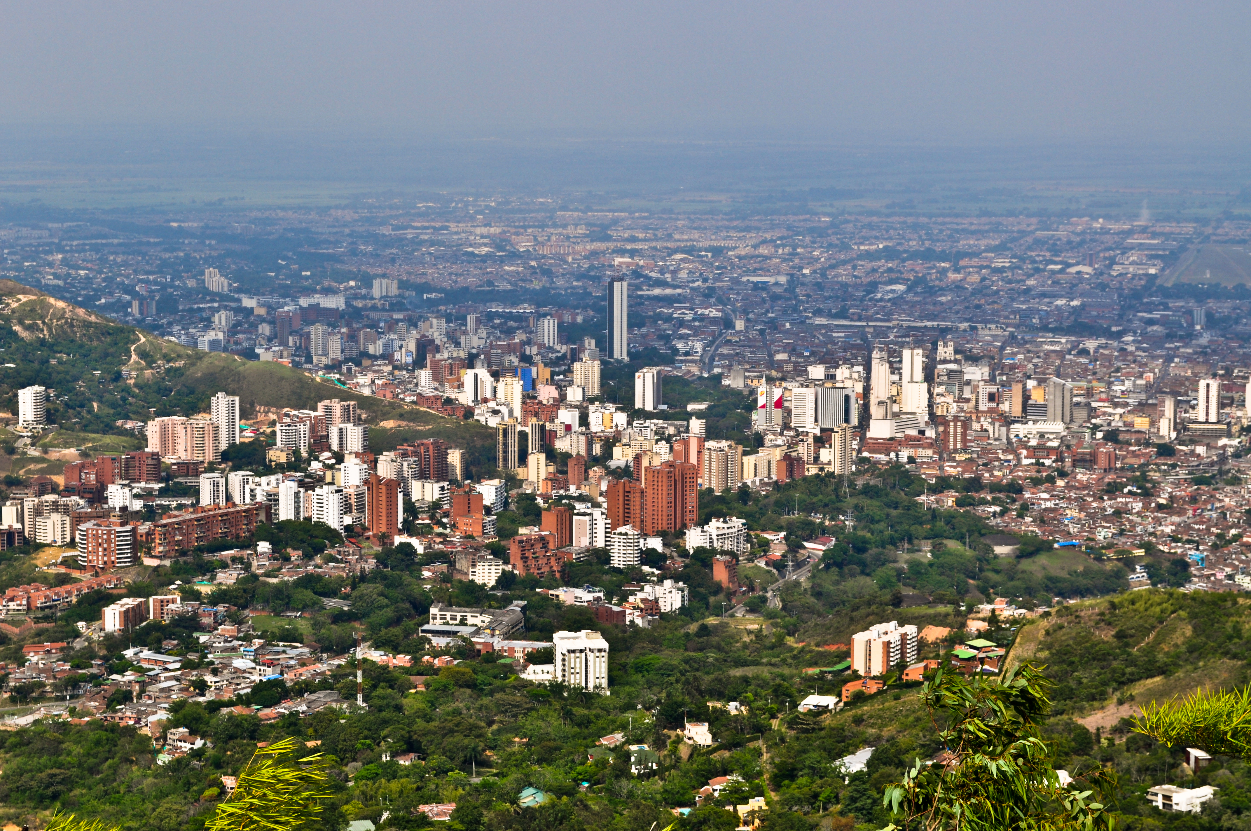 Santiago de Cali panoramic view from Cristo Rey Hills.